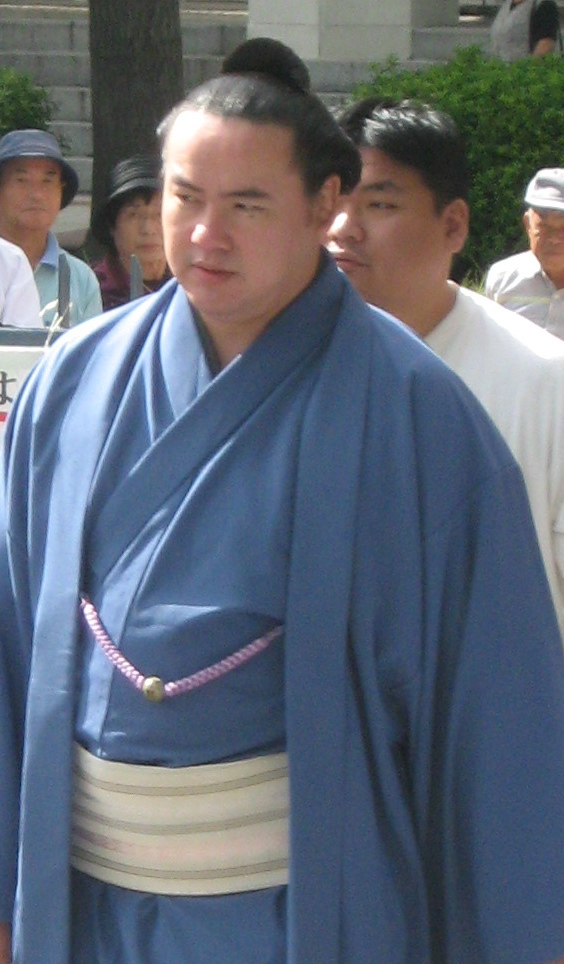 taken at 08 Sep tournament